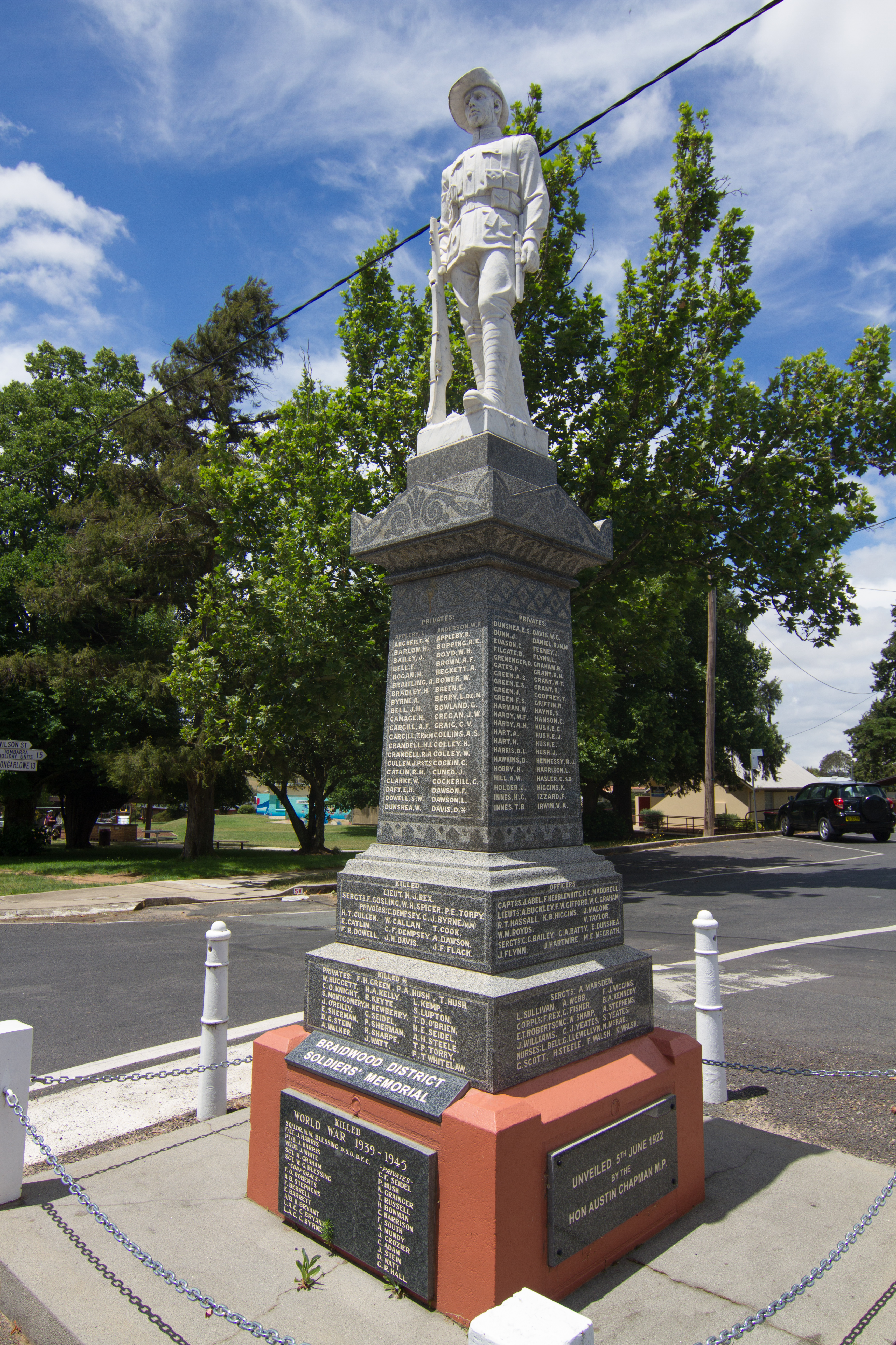 Braidwood NSW 2622, Australia